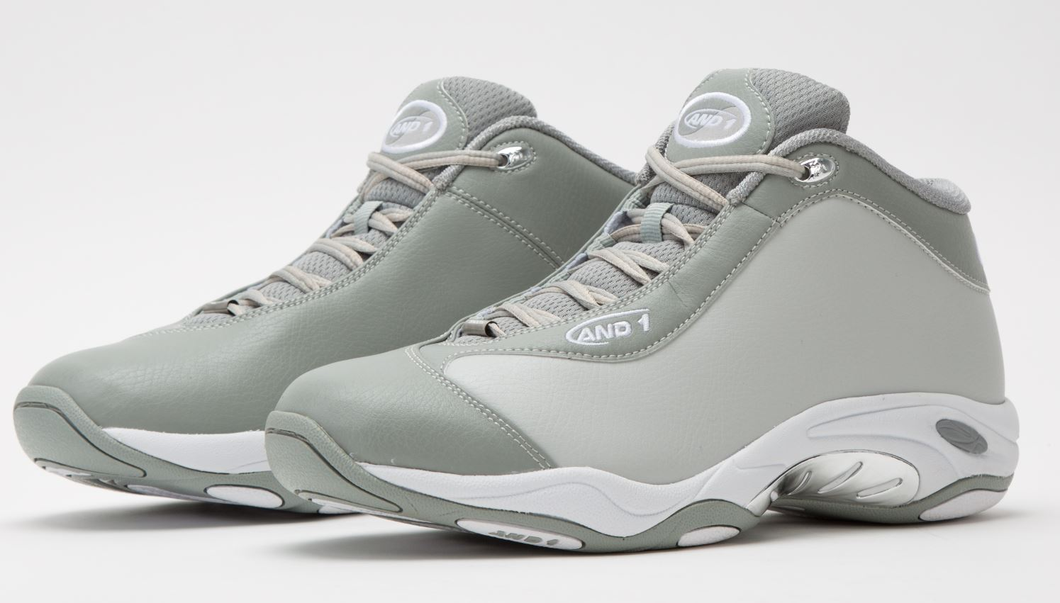 Undoubtedly one of the most iconic basketball shoes to date.